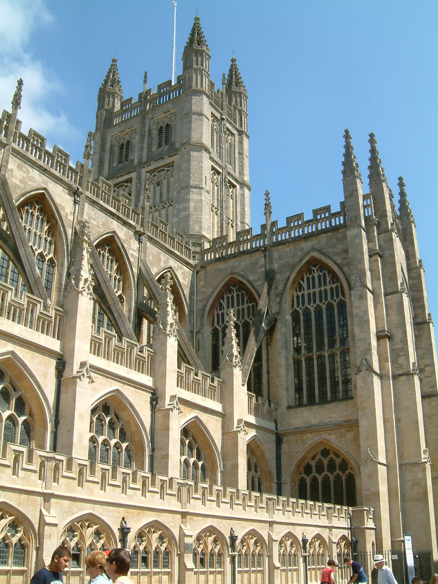 Bath Abbey, England, United-Kingdom